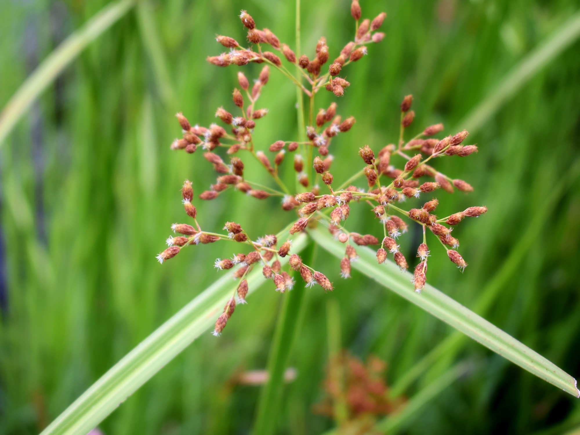 Actinoscirpus grossus. From Lumajang, East Java, Indonesia. Inflorescences.